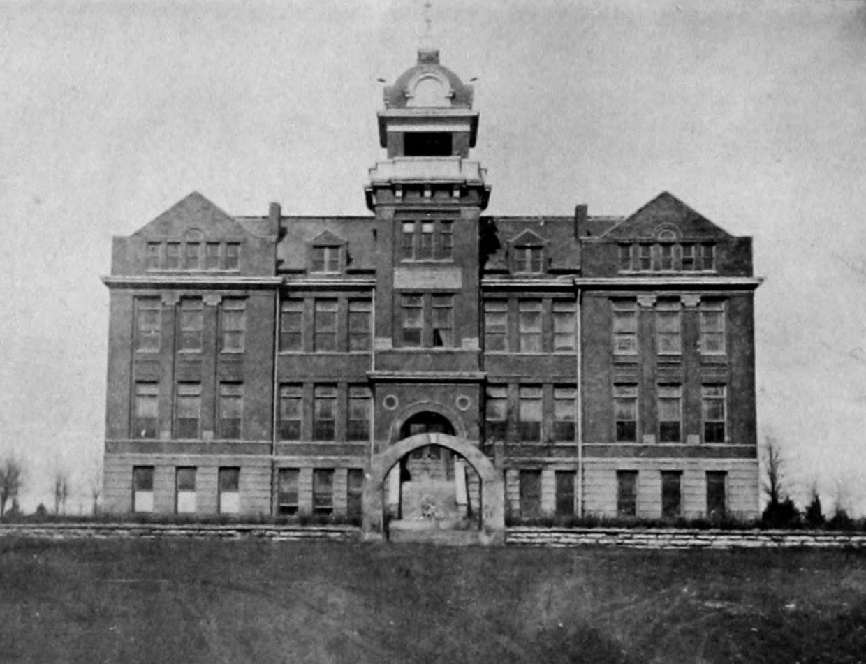 Title: Oracle, The Year: 1919 (1910s) Authors: Southwestern Normal School Subjects: 01. Institutional Identity: (1906 - 1920) Southwestern Normal School 02. Publication Catagory: Annual 02. Publication Catagory: Yearbook 02. Publication Catagory: Memory Book 03. Publication Title: The Oracle 04. Year of Publication: 1919 05. Publication Format: Book Publisher: View Book Page: Book Viewer About This Book: Catalog Entry View All Images: All Images From Book Click here to view book online to see this illustration in context in a browseable online version of this book. Text Appearing Before Image: ' Text Appearing After Image: '